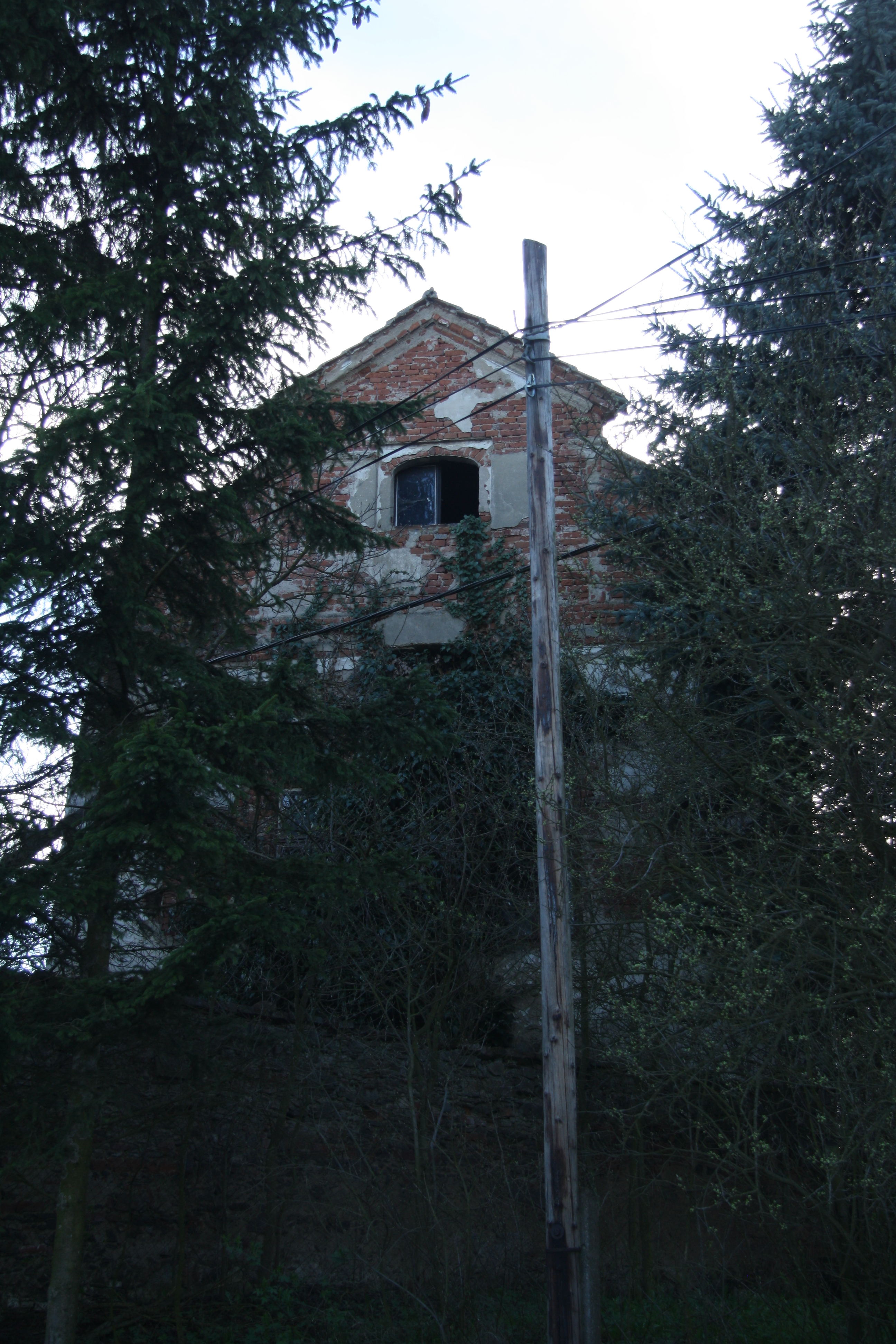 Gable of new castle in Přímělkov, Brtnice, Jihlava District